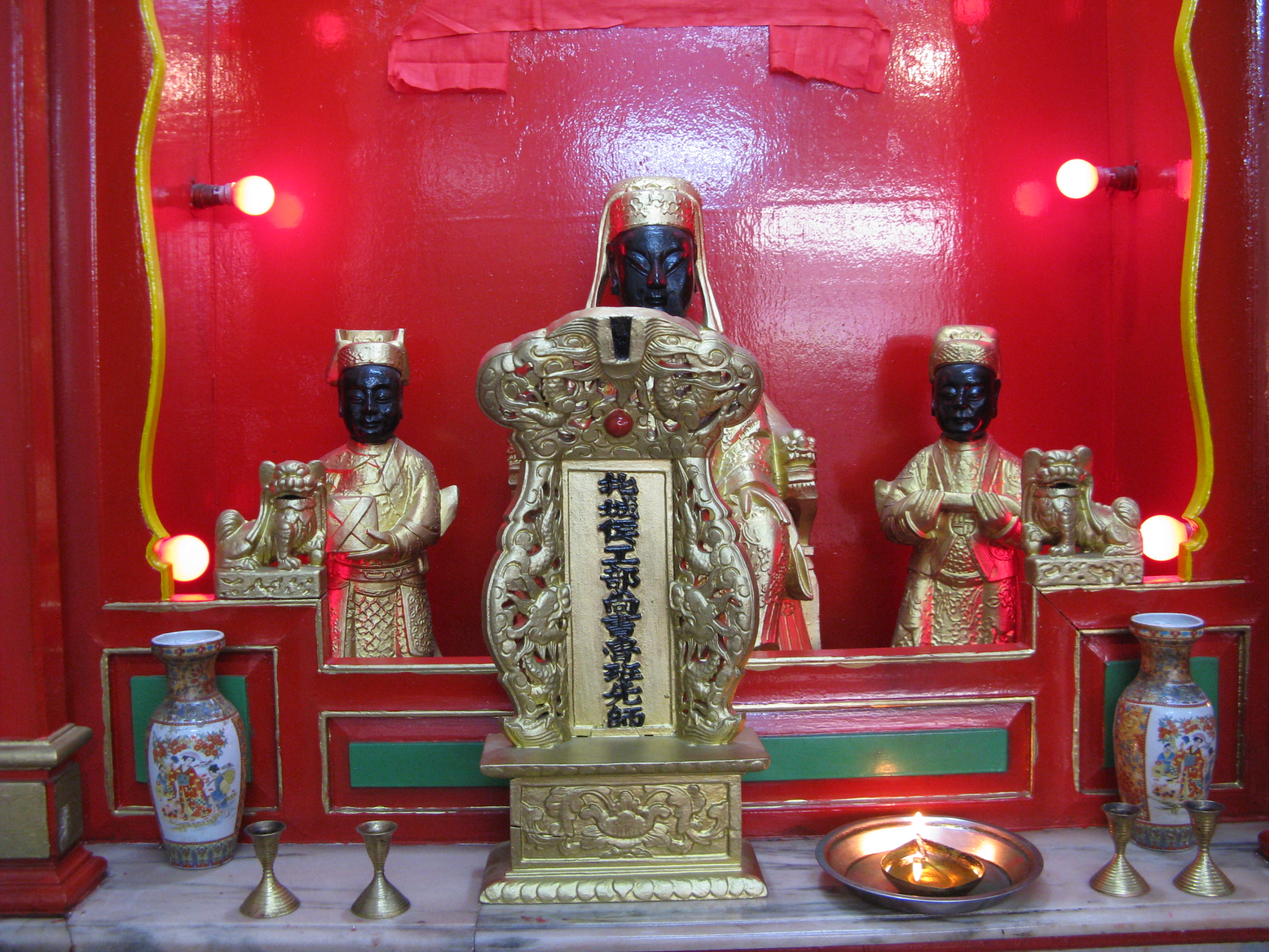 Built in 1820 the Nam Soon Church is the oldest of the six Chinese Temples of Tiretta Bazar. Located at the end of Damzen Lane .It house the idol of Kwan Yin, the Chinese Goddess of war, mercy and love.. The temple also houses a set of weapons, wall & roof hanging and numerous images & statues of Chinese Gods & Goddesses.